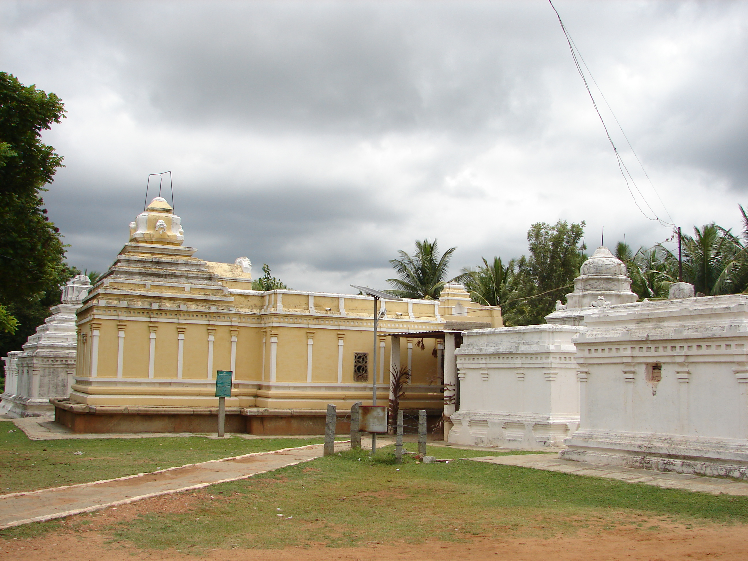 This photograph was taken by me at the Kalleshvara temple (also spelt Kalleshwara) in Aralaguppe, Tumkur district, Karnataka state, India. This construction is a good example of the 9th-10th century Nolamba dynasty style of architecture.